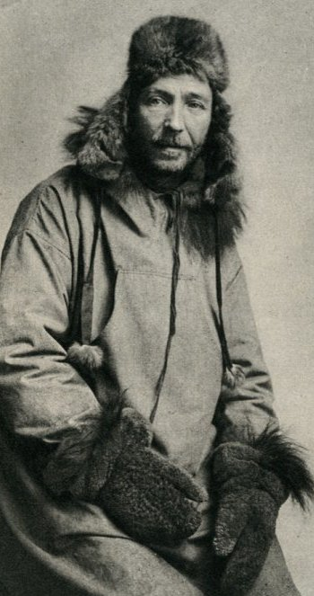 Portrait of Hudson Stuck